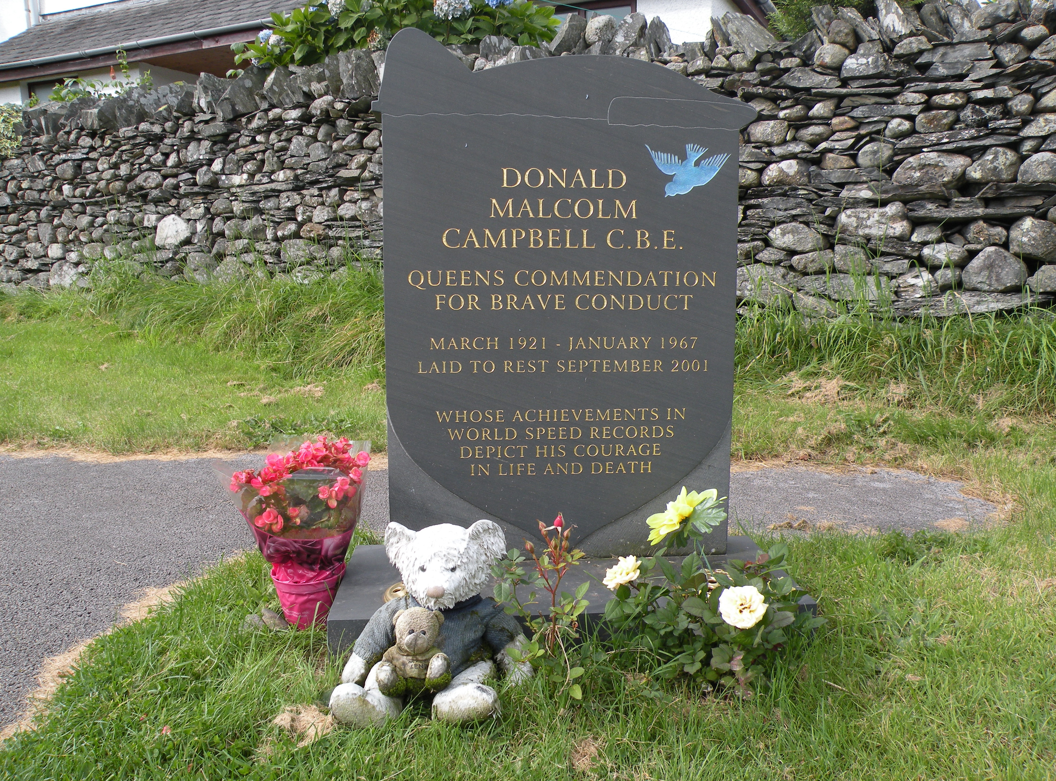 Donald Campbells Gravestone at Coniston Cumbria